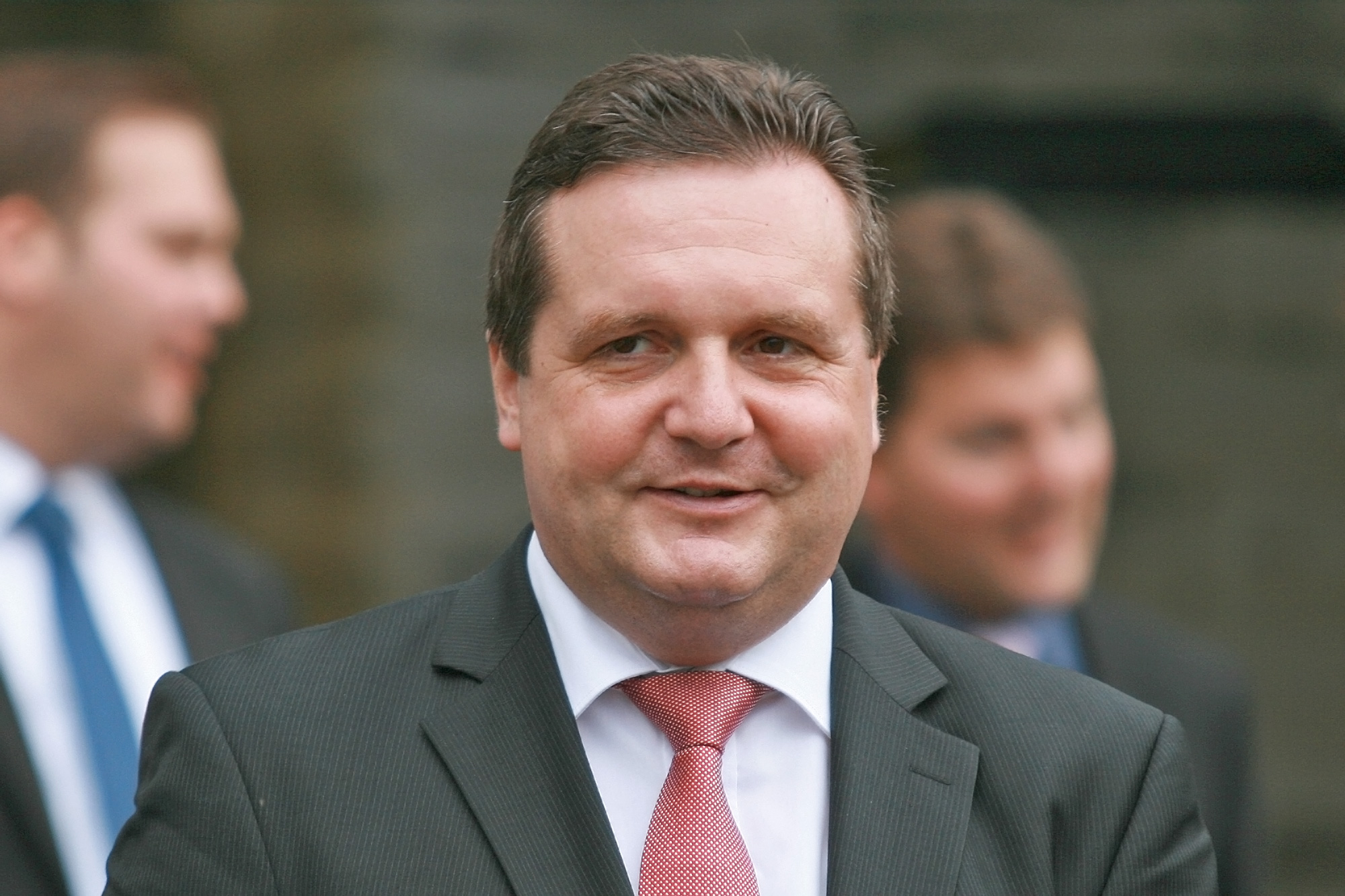 Stefan Mappus (born 4 April 1966), 2010 – 2011 Minister-President of Baden-Württemberg